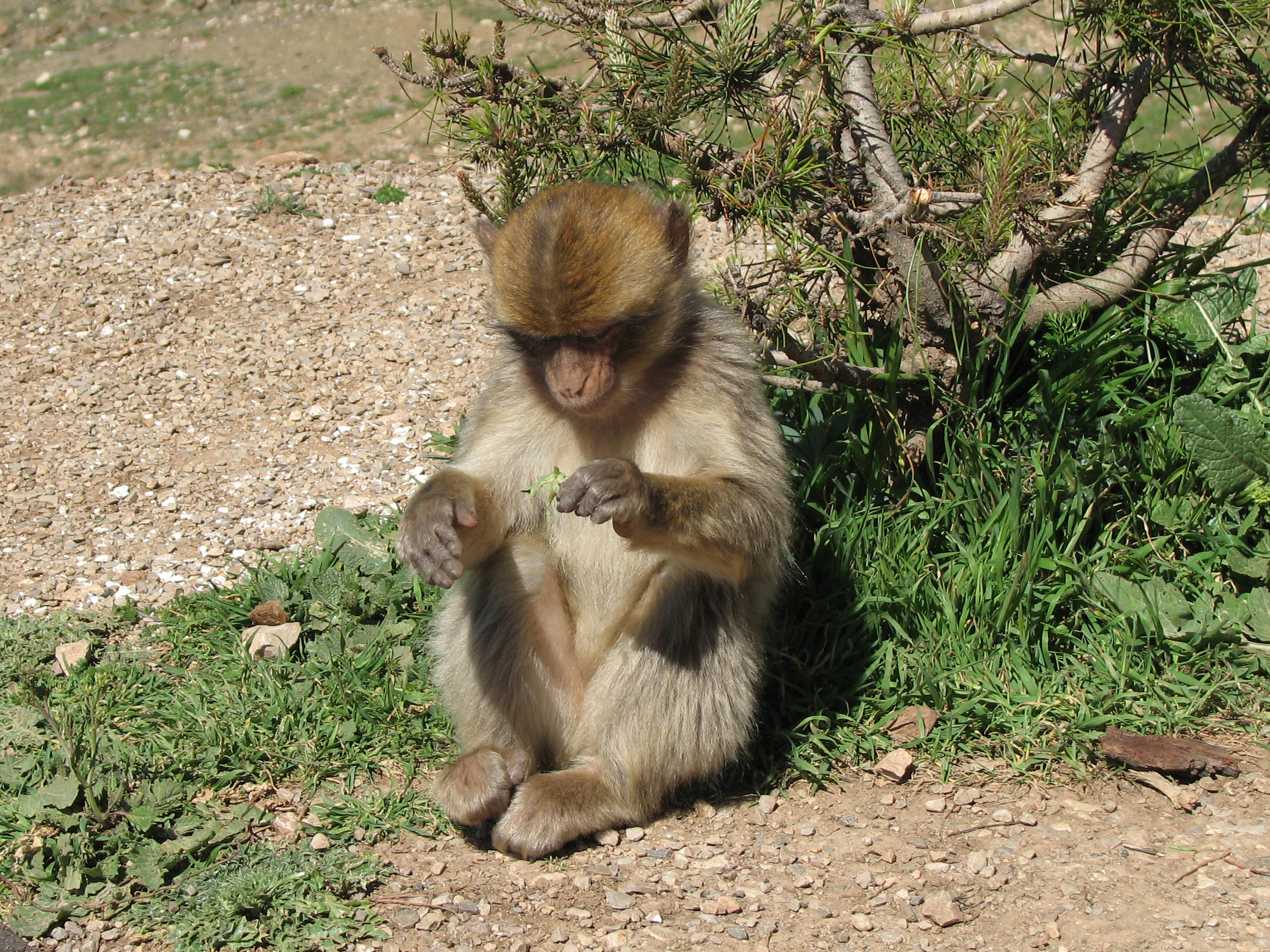 Macaca sylvanus, on the way to Azrou, Morocco.